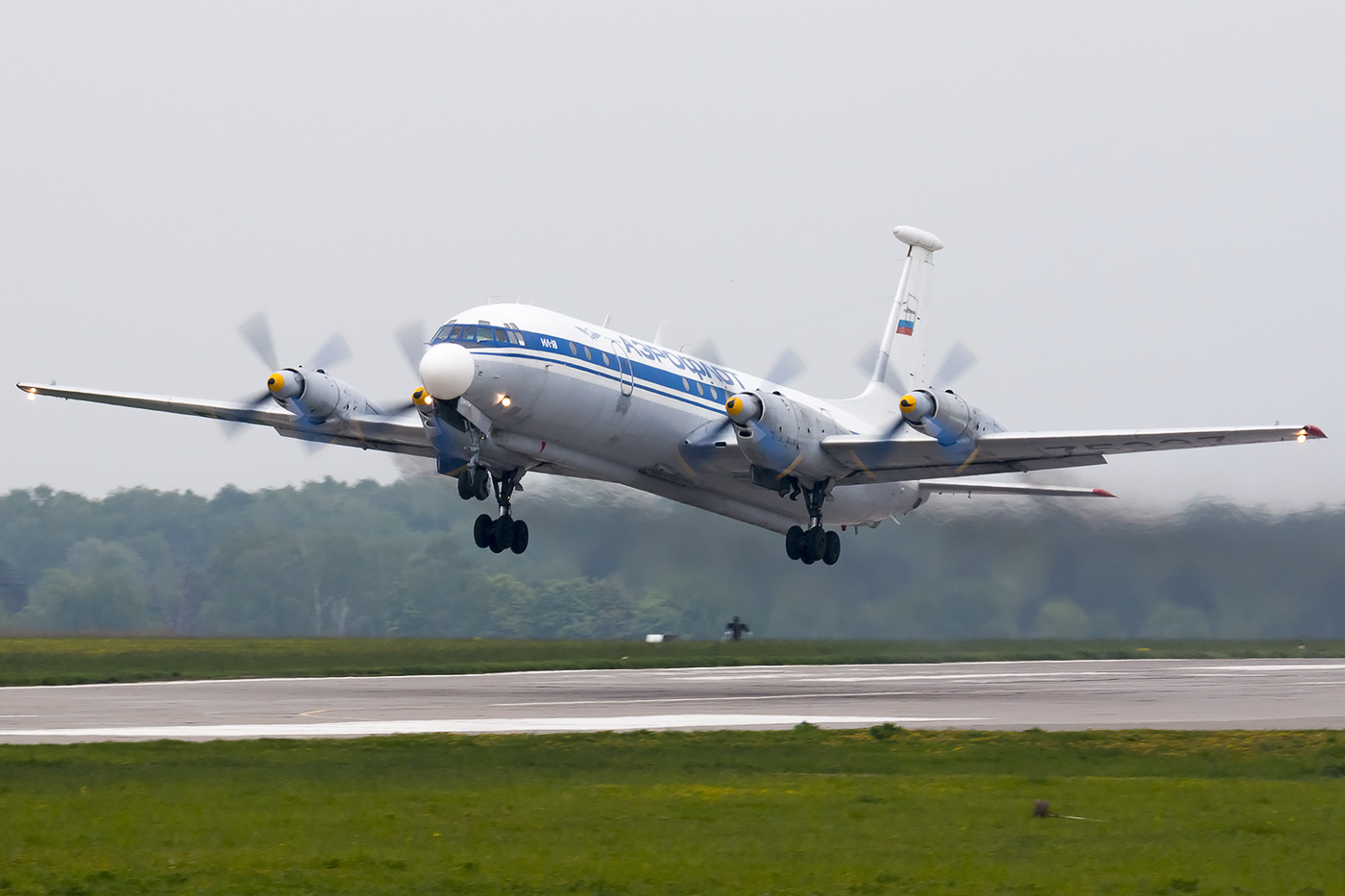 IL-22M RF-75337 taking off from Ostafyevo, Moscow